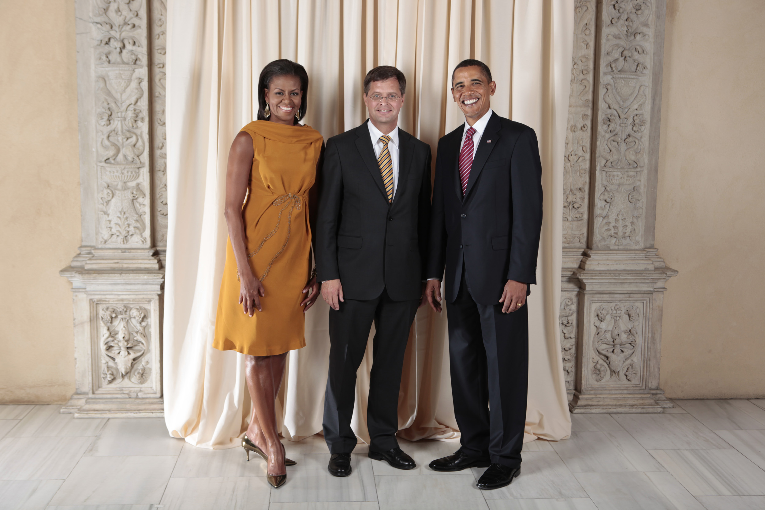 President Barack Obama and First Lady Michelle Obama pose for a photo during a reception at the Metropolitan Museum in New York with Jan Peter Balkenende.